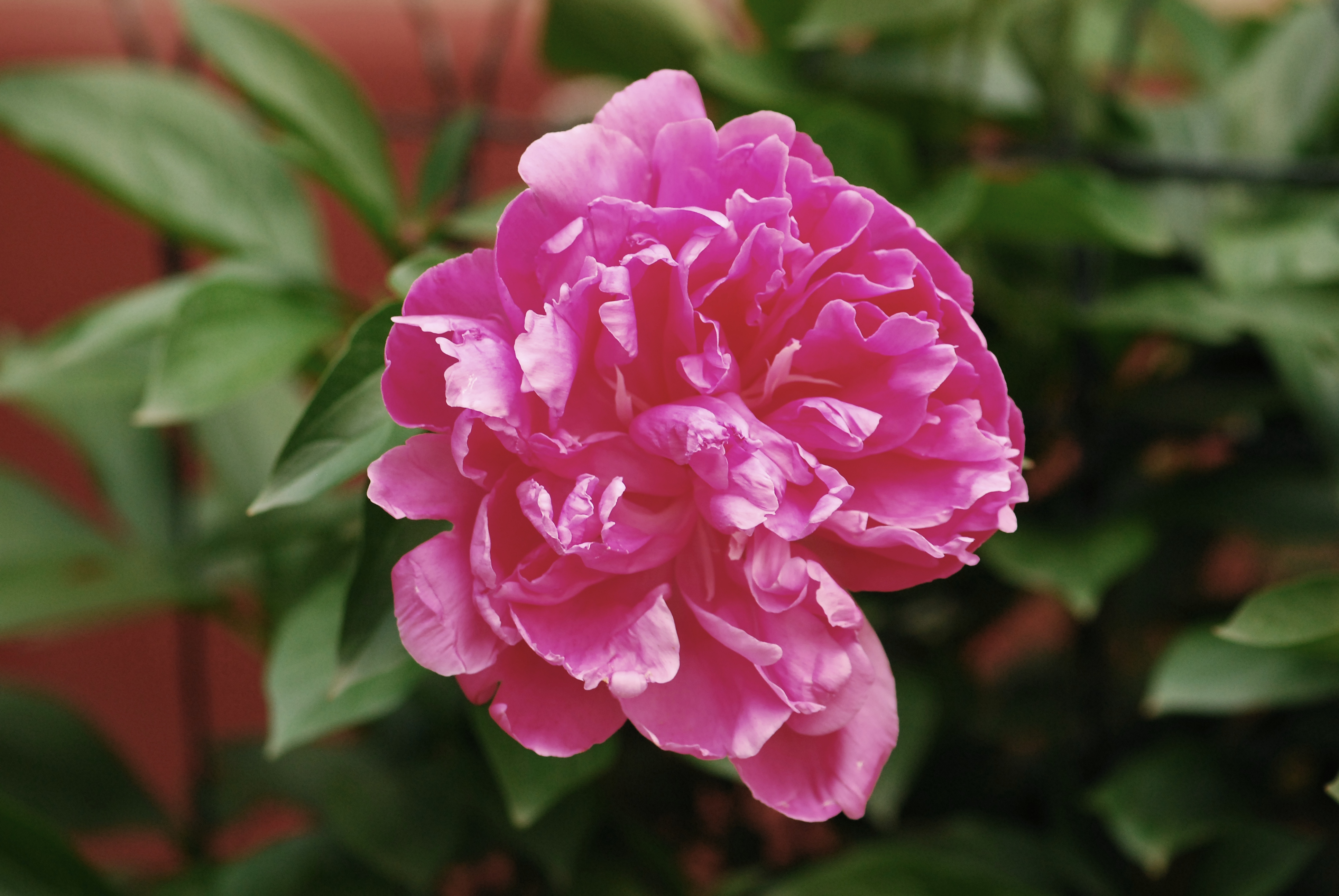 Paeonia lactiflora cultivar Monsieur Jules Elie, in a garden in Romania